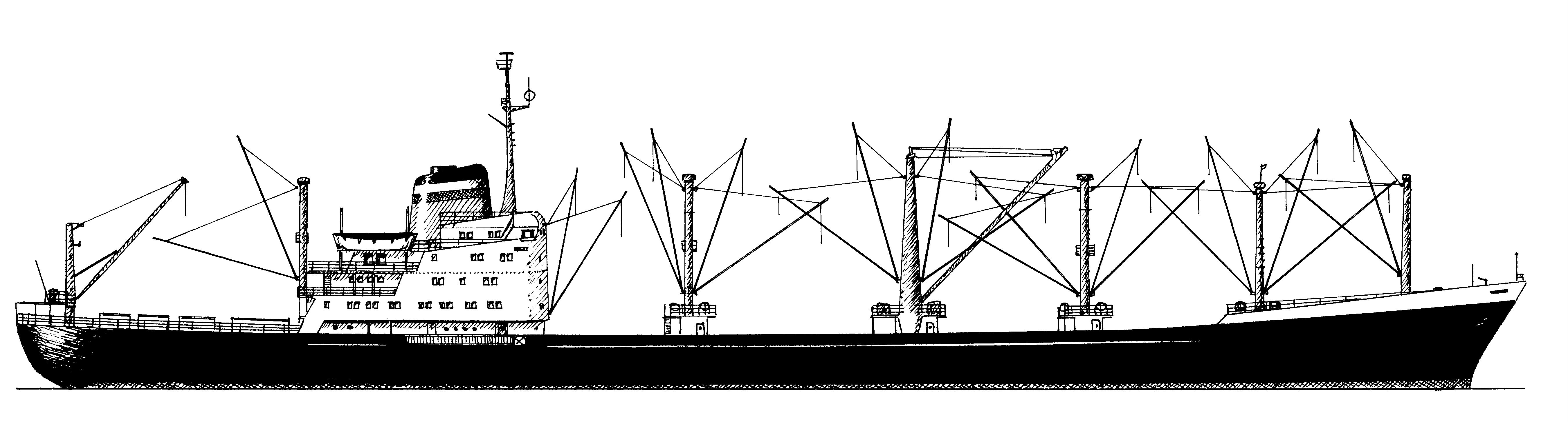 MV WESTFALIA the last traditional cargo vessel of the HAPAG